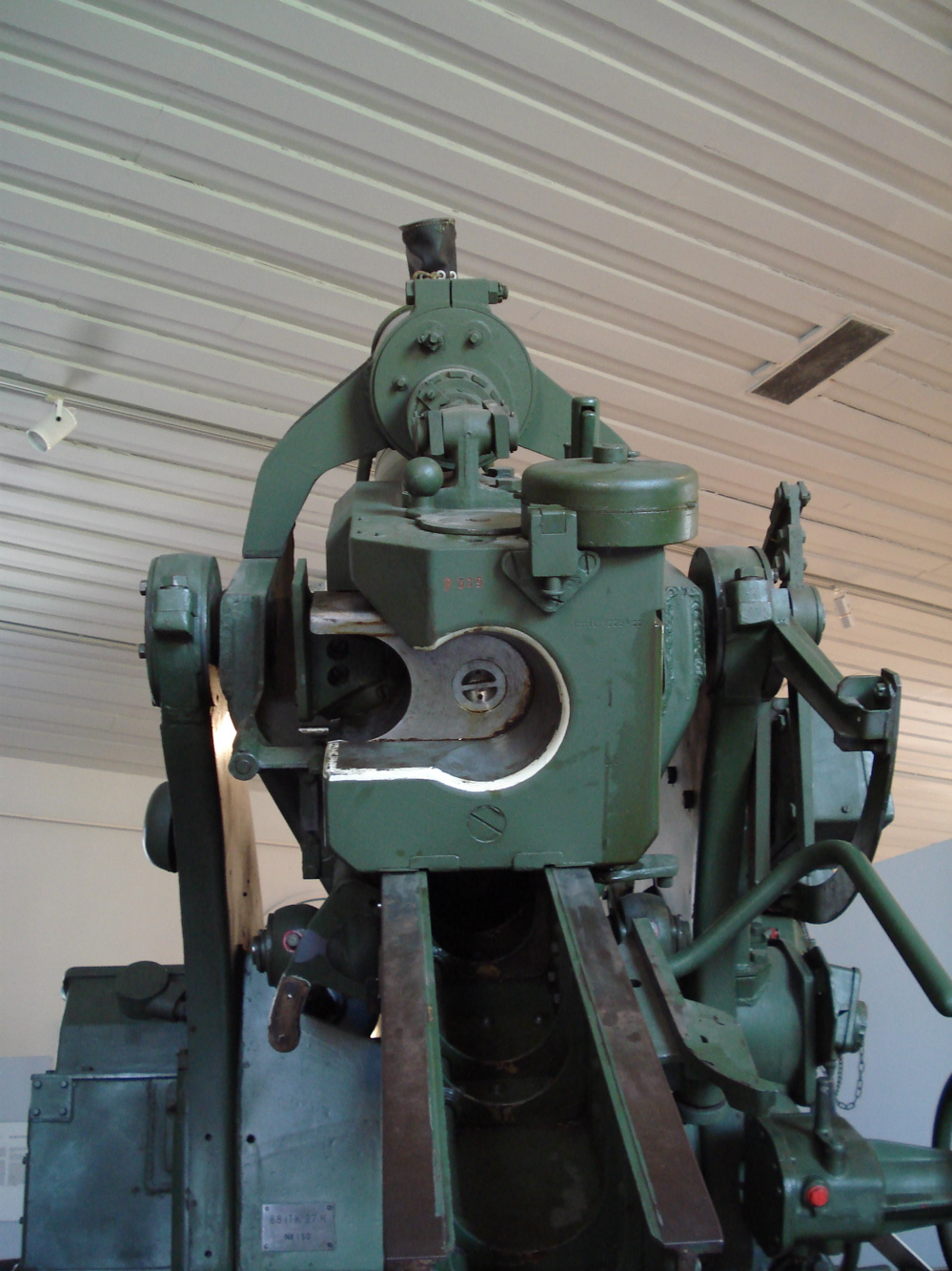 88 mm anti-aircraft gun, manufactured in Germany and used by Finland, displayed in Manege Military Museum in Suomenlinna fortress, Helsinki. Photo taken on June 10, 2006. Source: Photo by me, User:Balcer.